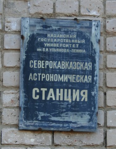 Engelhardt Observatory, Zelenchukskaya Station, MPC COD: 114